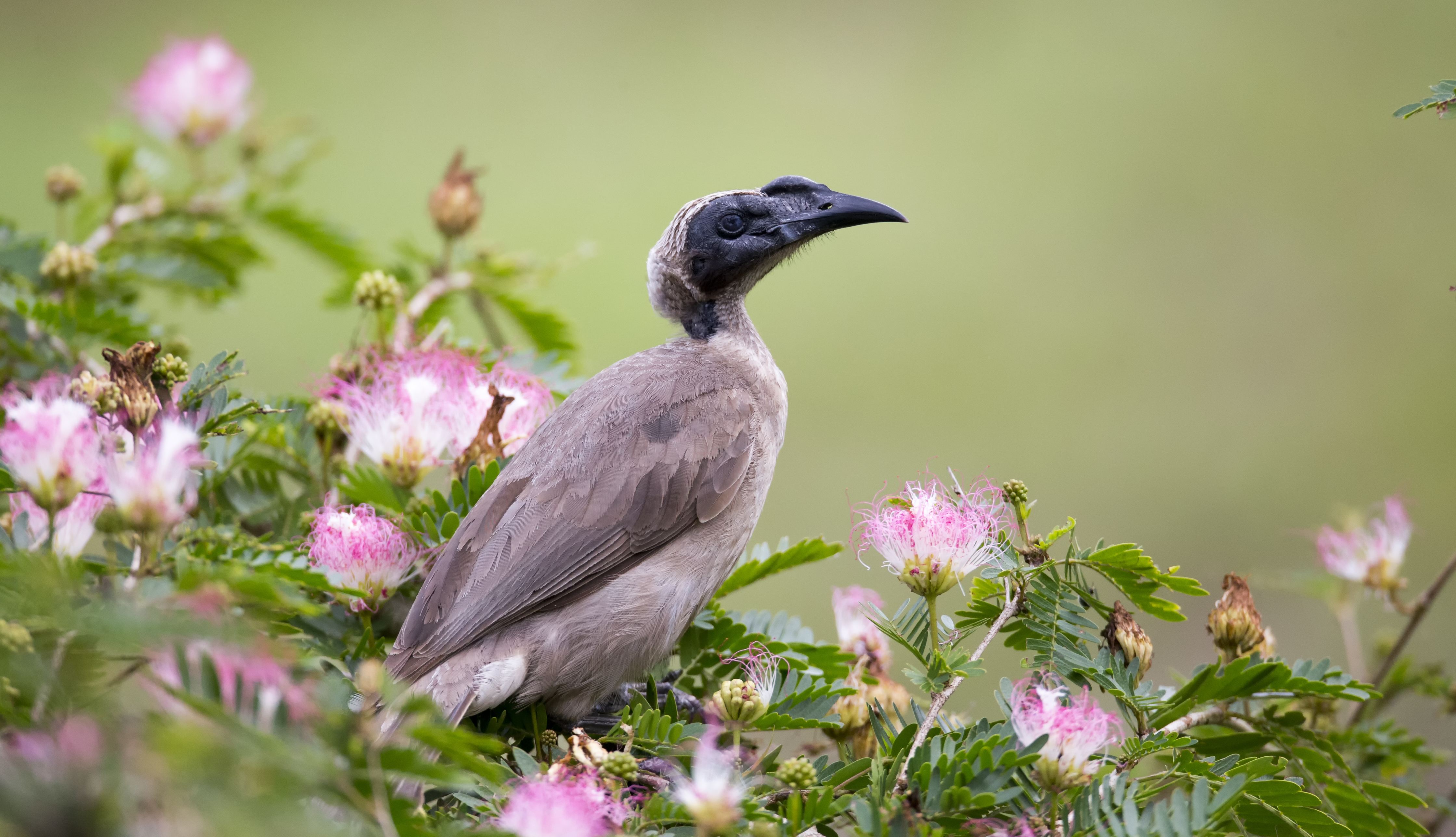 leatherheads, friarbirds, whatever, are fairly common up here, and not your prettiest bird, but they have some very admirable habits. When they sing to their partner, they mean it!! Every night, they come and have a hunt through the pom pom tree, beetles and nectar, and a little melody for each other.